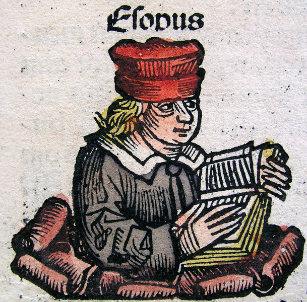 Depiction of Aesop from the Nuremberg Chronicle. Published in 1493.